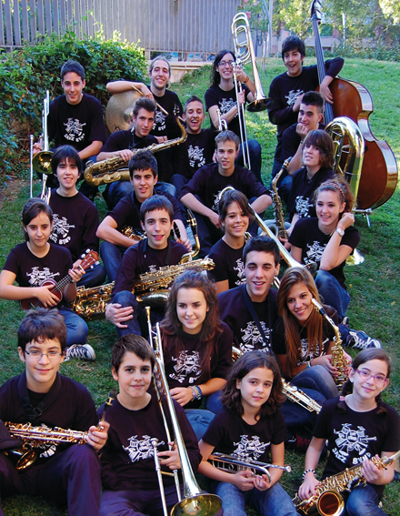 picture of the Sant Andreu Jazz Band